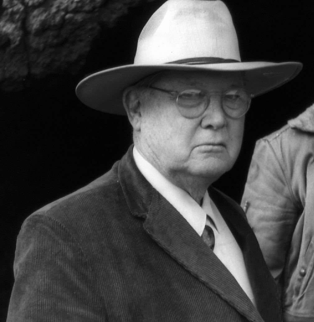 Erle Stanley Gardner, the author of Perry Mason mysteries and many other books.